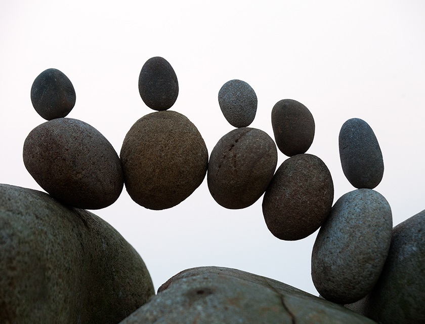 A rock arch balance created by Pascal Fiechter / Gravity Meditation This is a cropped version of "Arch_Balance.jpg" by Pascal Fiechter, originally uploaded to Wikipedia on 2014-10-01.